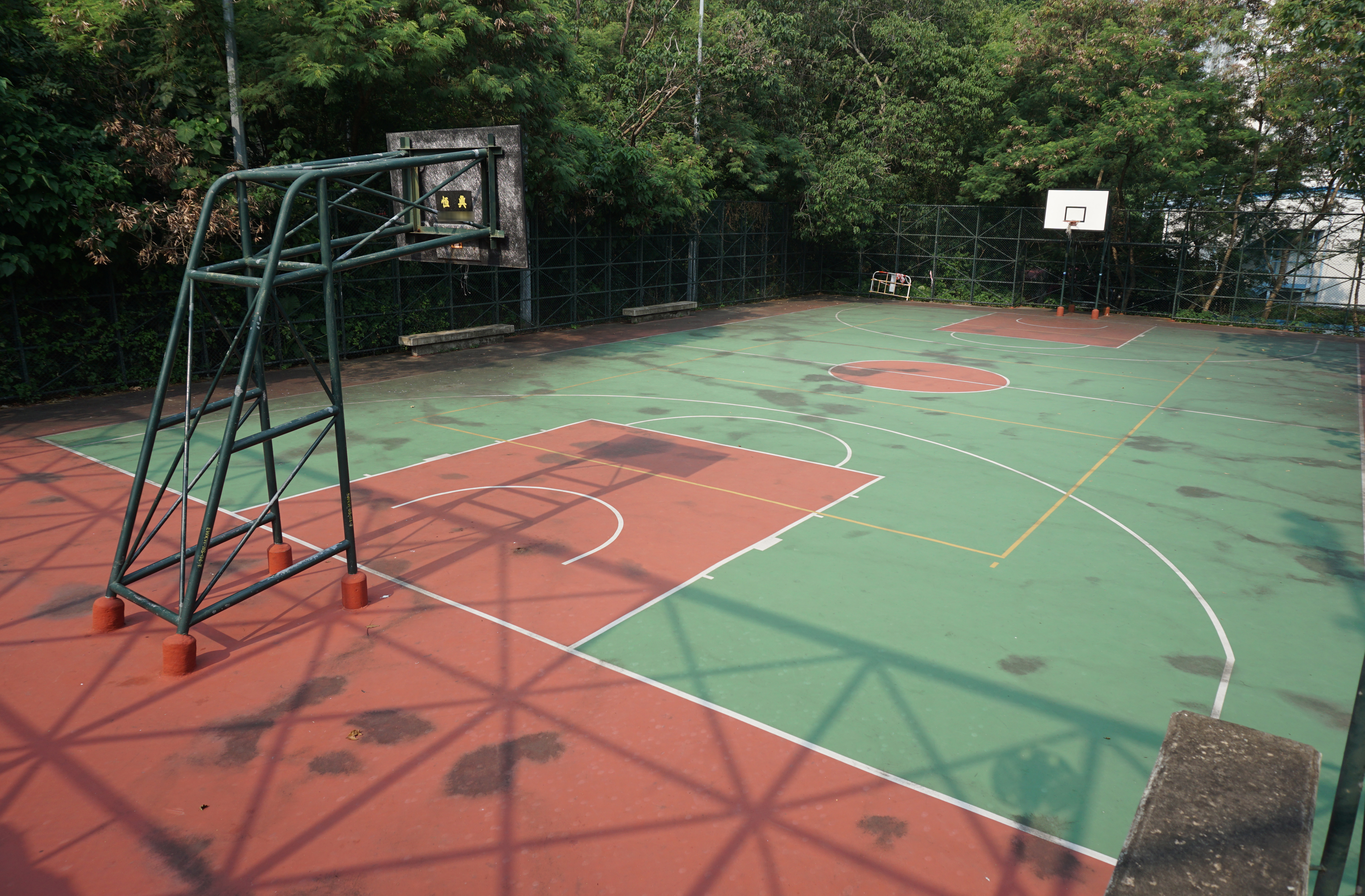 Wah Kwai Estate in Pok Fu Lam, Hong Kong.